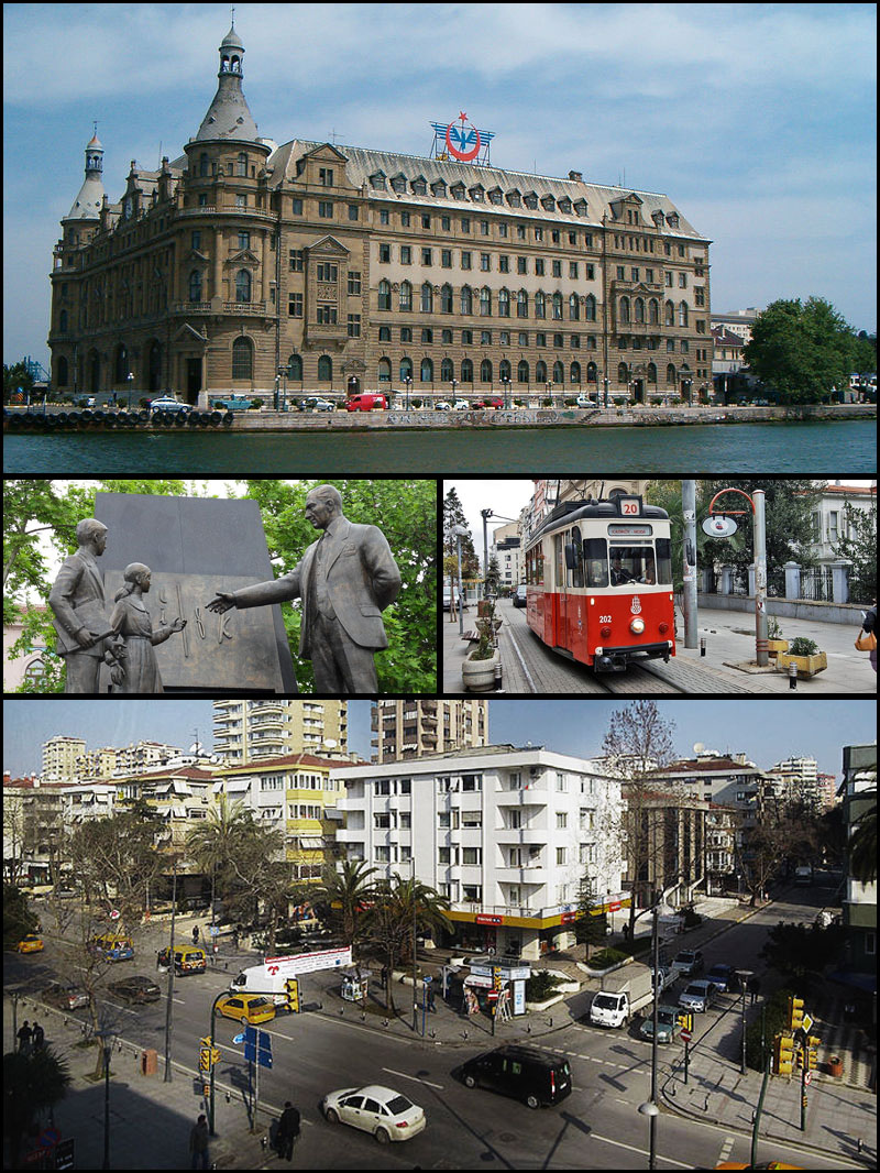 Tw 202 (former Jena 102) of Istanbul Ulasim at Line T3 Kadiköy - Moda in Istanbul.